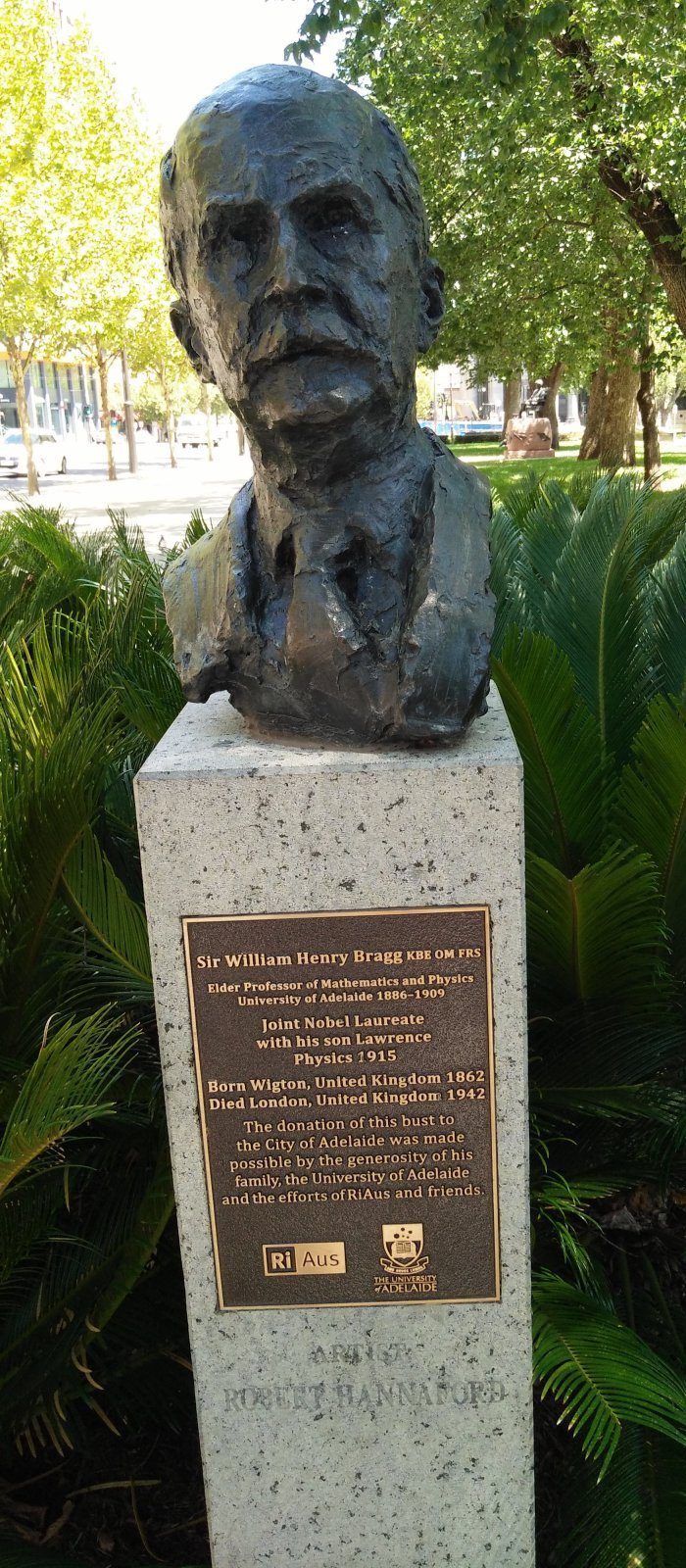 Bust of Nobel Prize winner Sir William Henry Bragg by Robert Hannaford - located on the Jubilee 150 Walkway in front of Government House, Adelaide